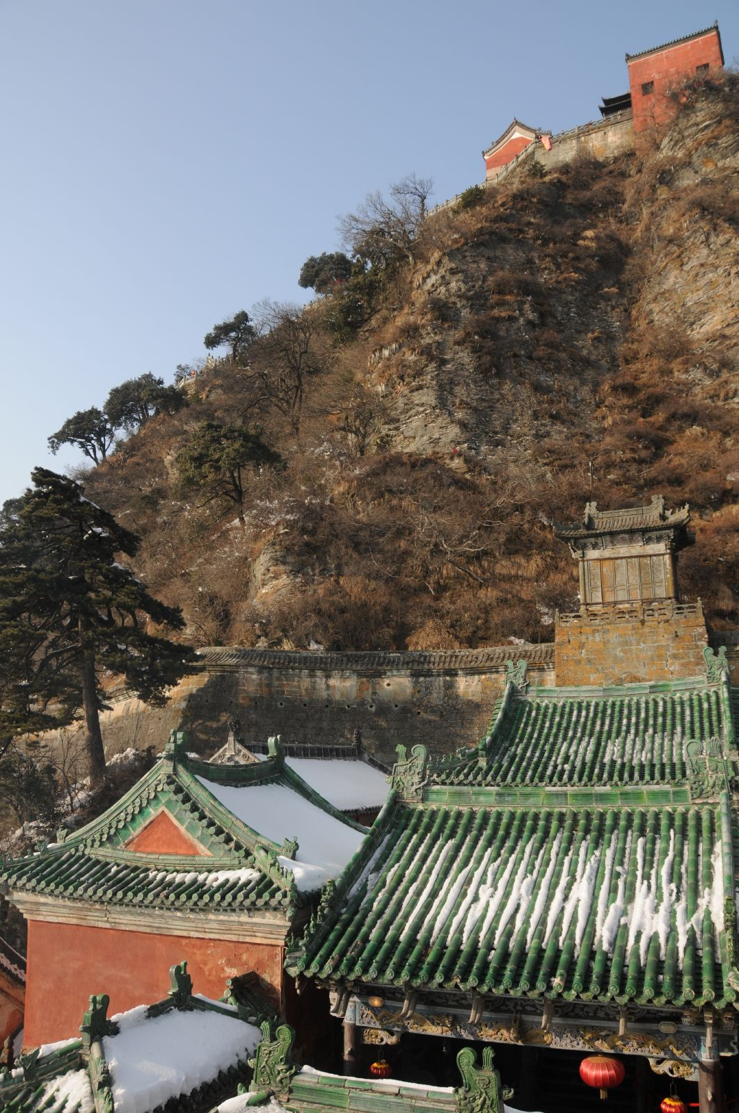 The Wudang Mountains in China.